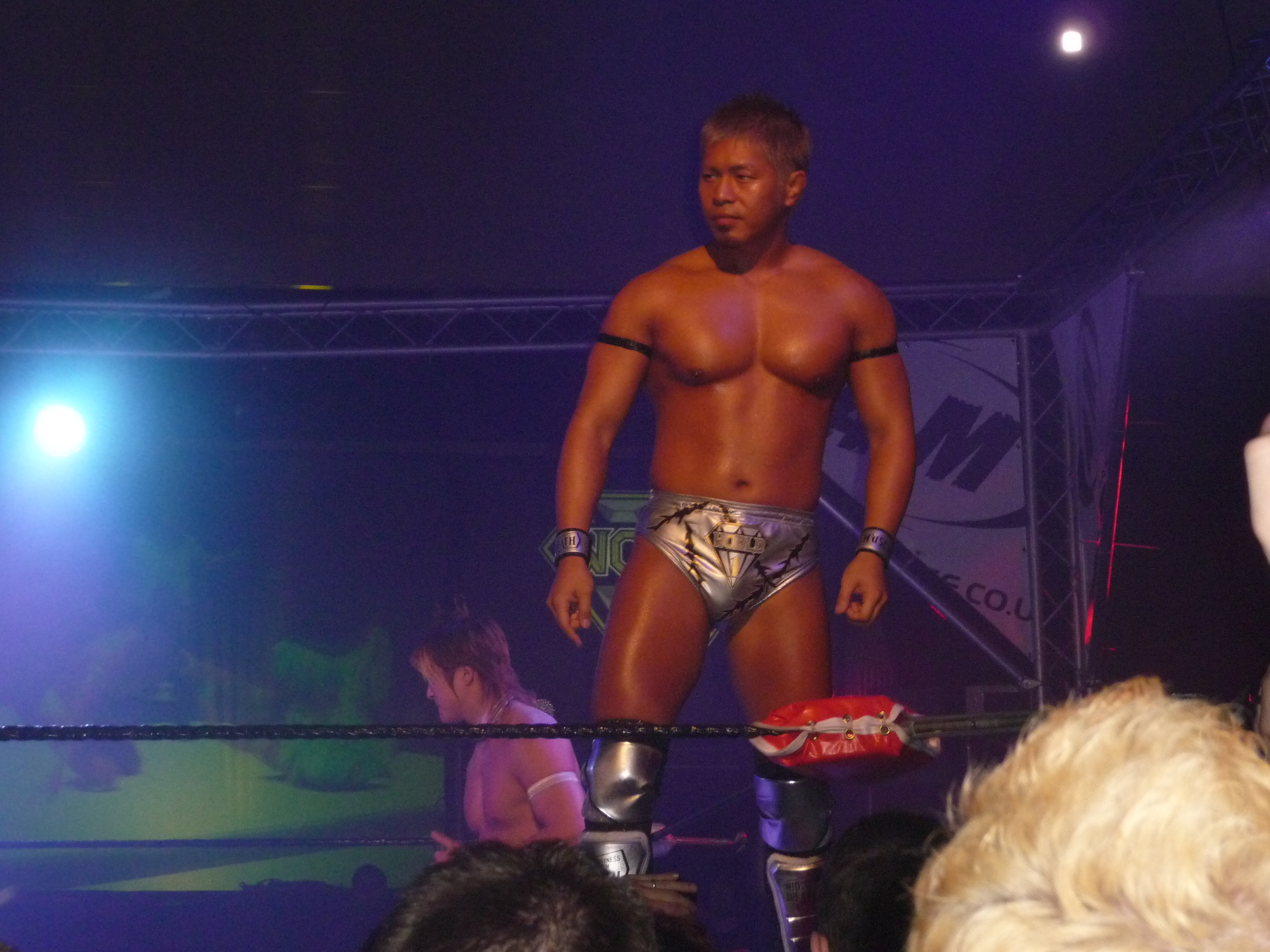 Professional wrestler Naruki Doi at a Dragon Gate show in Oxford, England in November 2009.